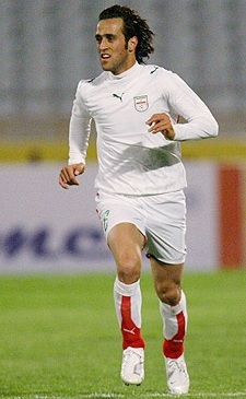 AFC Asian Cup 2007 qualification - Iran v South Korea, 15 November 2006